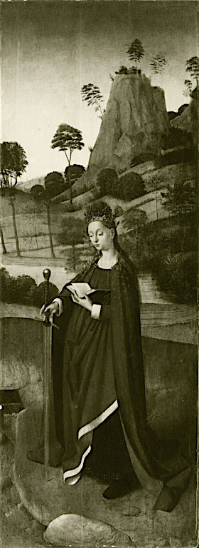 'Saint Catherine', by Petrus Christus (c. 1470/1475), a painting possibly destroyed in the Friedrichshain flak tower fire in Berlin, at the end of the Second World War (May 1945). The painting belonged to the collections of the Kaiser-Friedrich-Museum, now the Bode-Museum of Berlin.